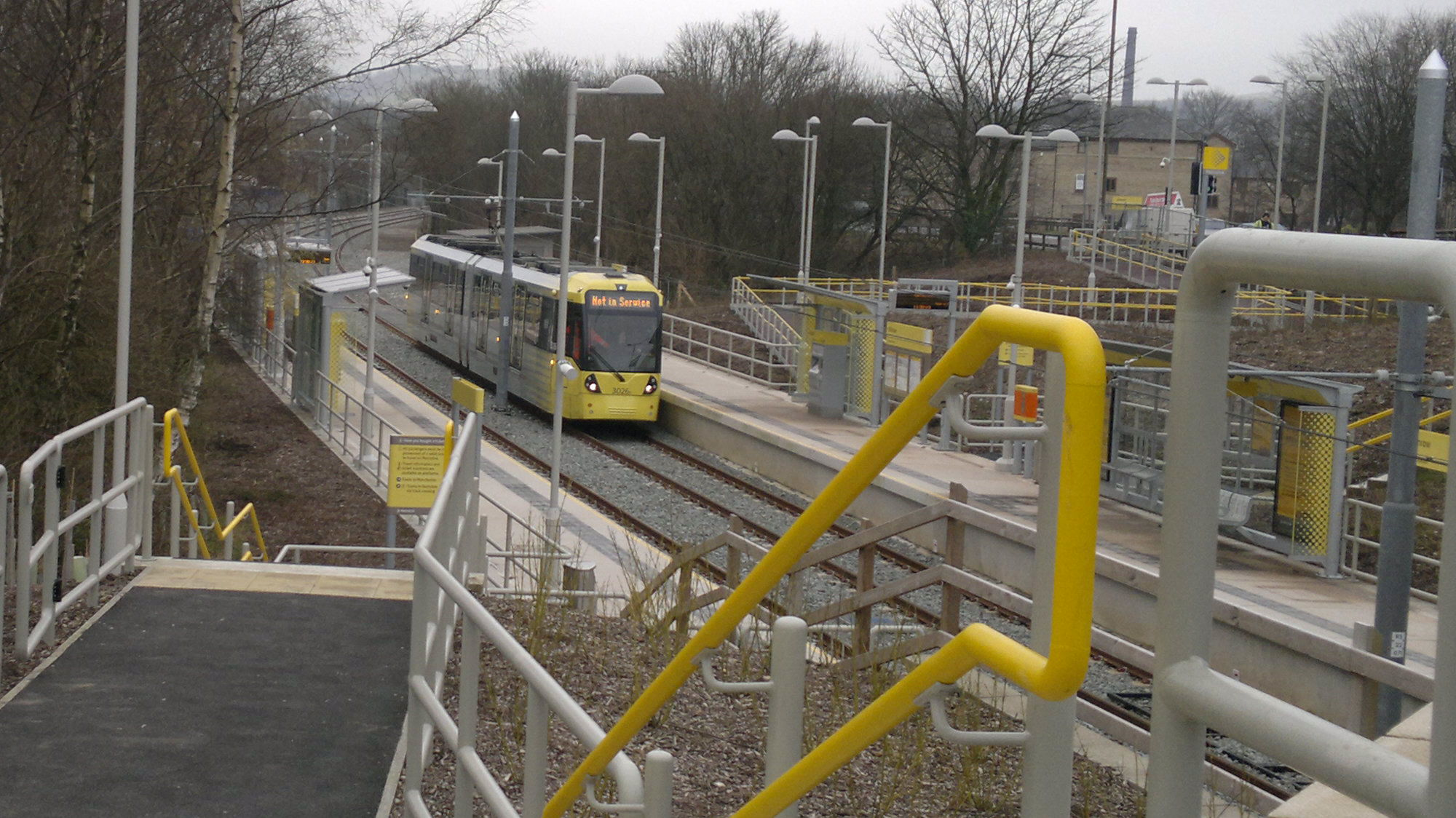 Milnrow Metrolink station, a stop on Greater Manchester light rail Metrolink network.